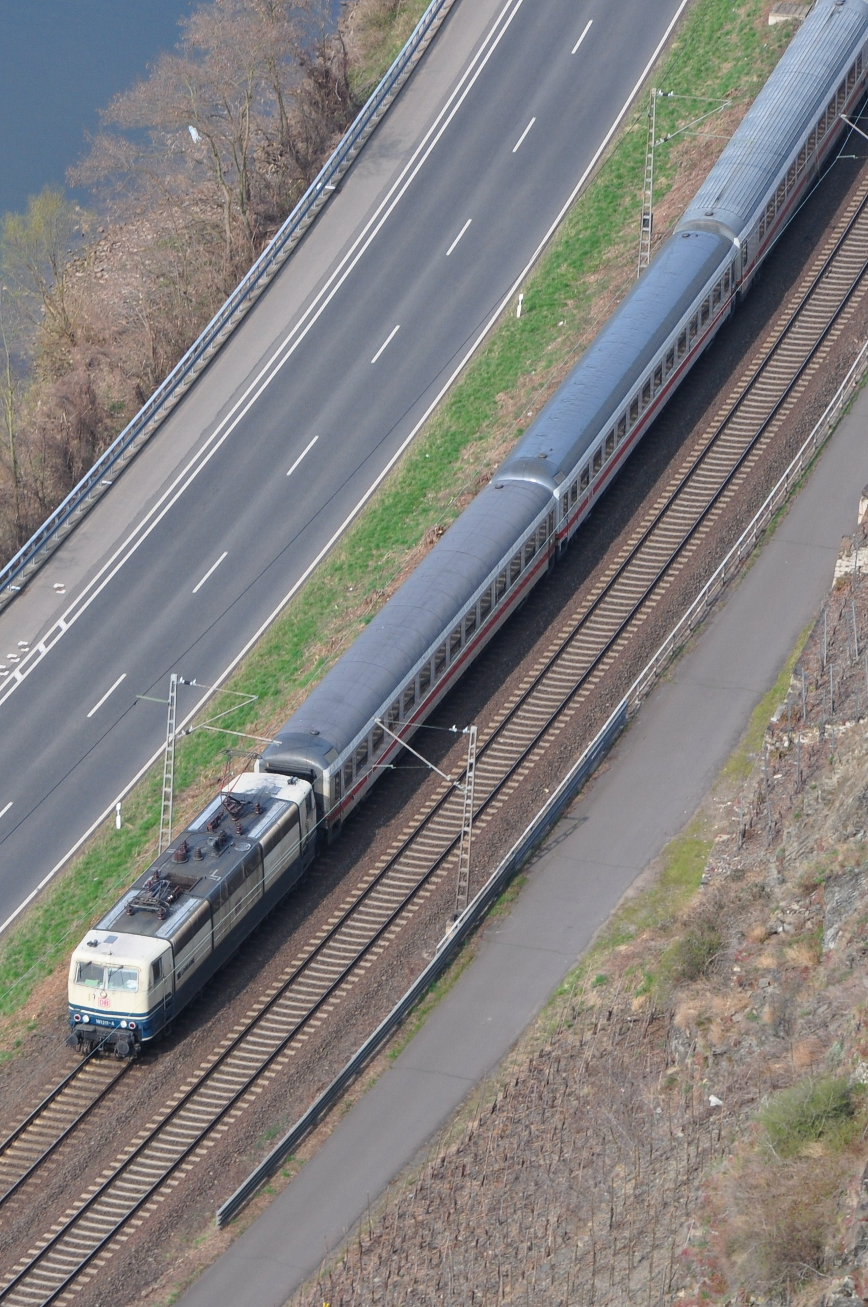 Series 181 in the Moselle valley in front of IC